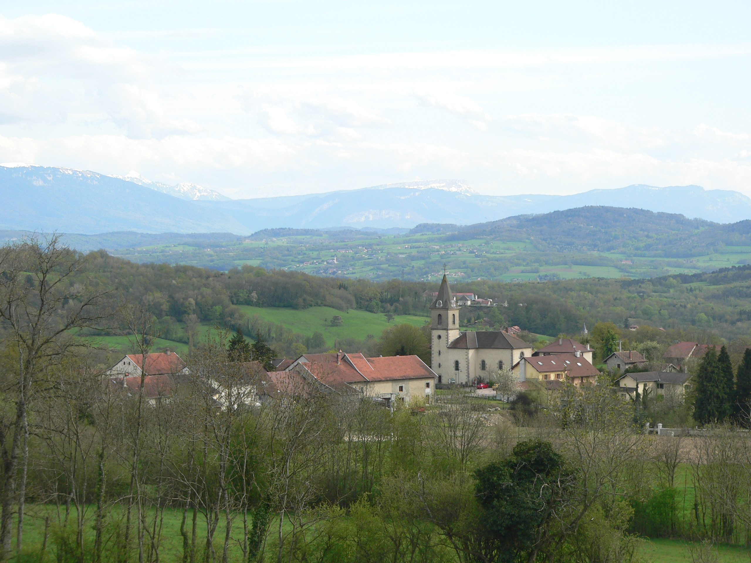 Picture of Jonzier-Epagny (Haute-Savoie - FRANCE)